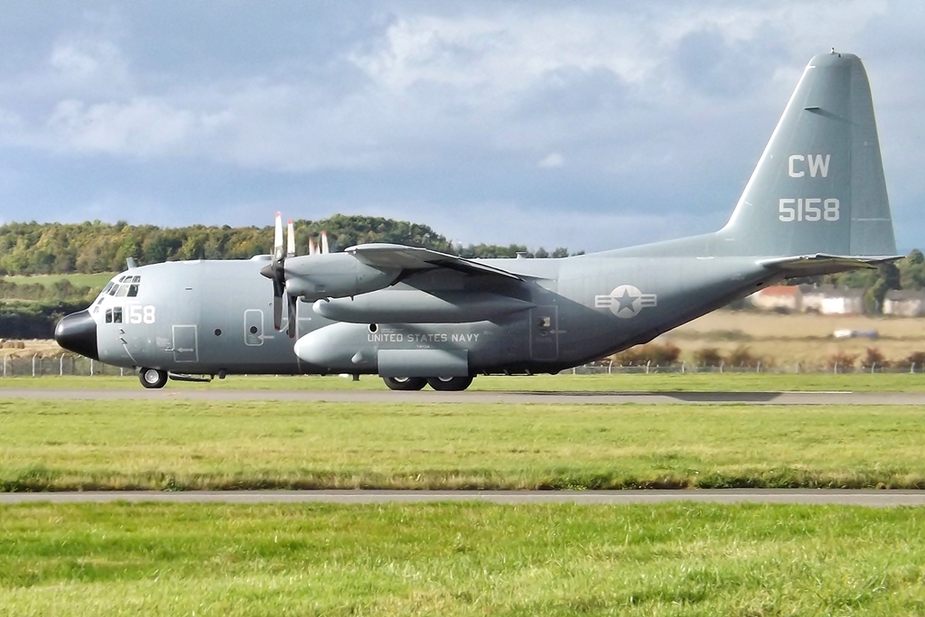 165158 C-130T US Navy VR-54 "Revelers"